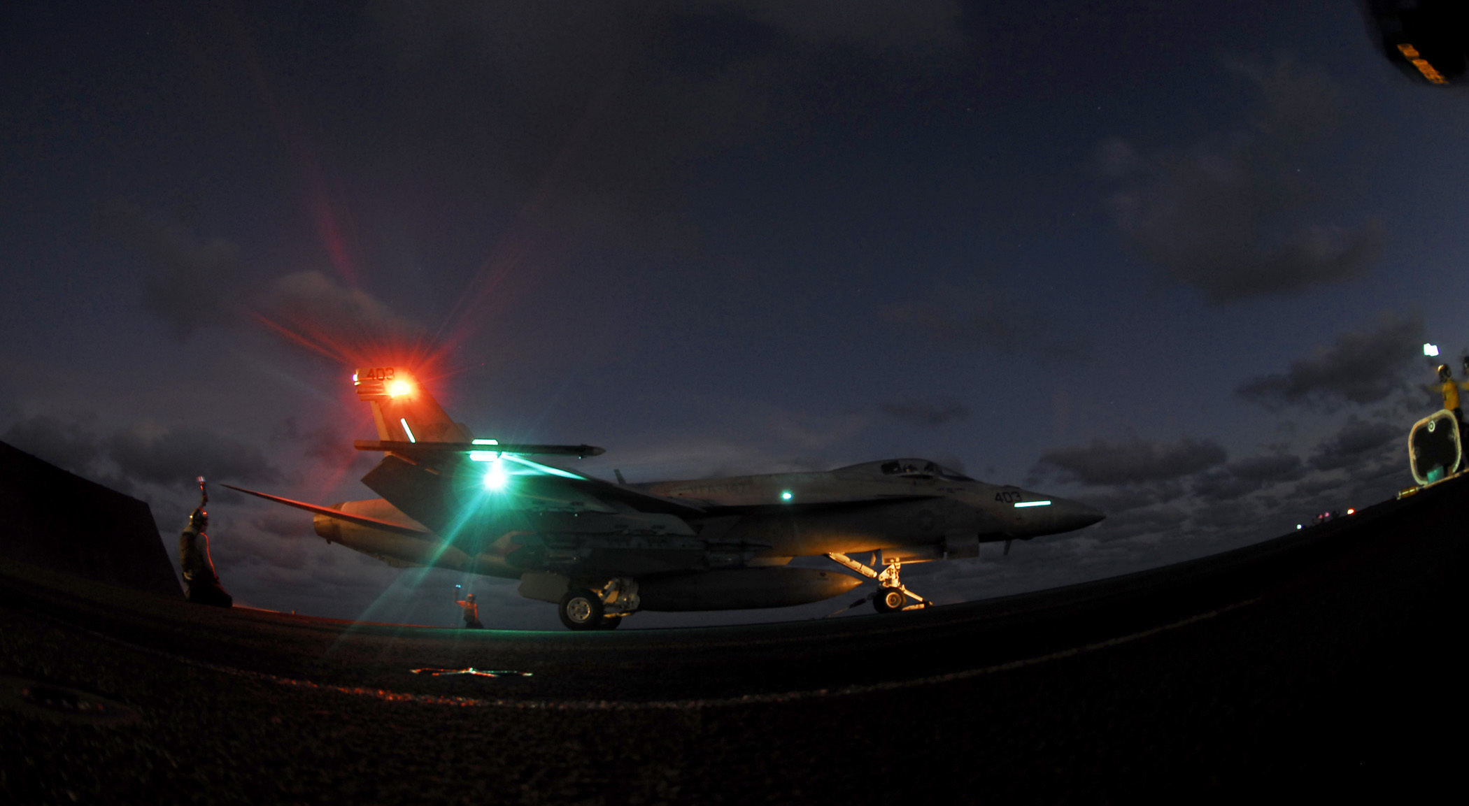 An F/A-18E Super Hornet from the "Argonauts" of Strike Fighter Squadron 147 goes to power on catapult two before launching from the aircraft carrier USS John C. Stennis during night flight operations. John C. Stennis and Carrier Air Wing 9 are on a scheduled six-month deployment to the western Pacific Ocean.